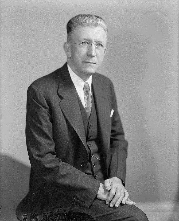 Raymond H. Burke, congressman from Hamilton, Ohio.